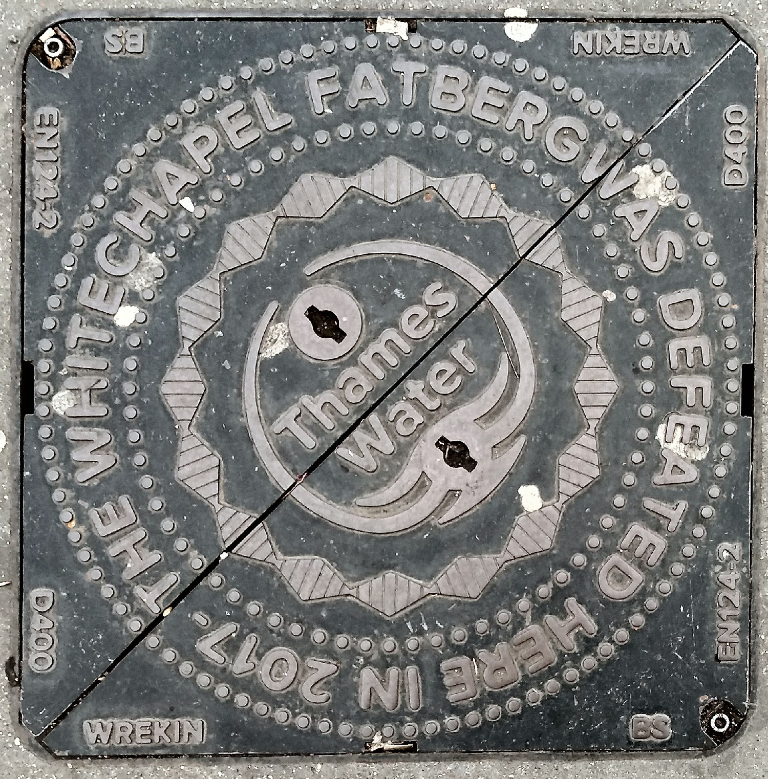 Whitechapel, Fatberg memorial manhole cover. Outside Whitechapel Station by the crossing, where the pedestrianised Court Street meets Whitechapel Road. Discovered in 2017, it weighed 130 tonne. A fragment went on show at Museum of London.